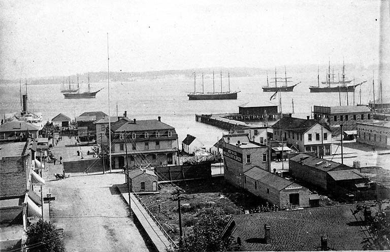 Port Townsend (Washington State) waterfront circa 1890